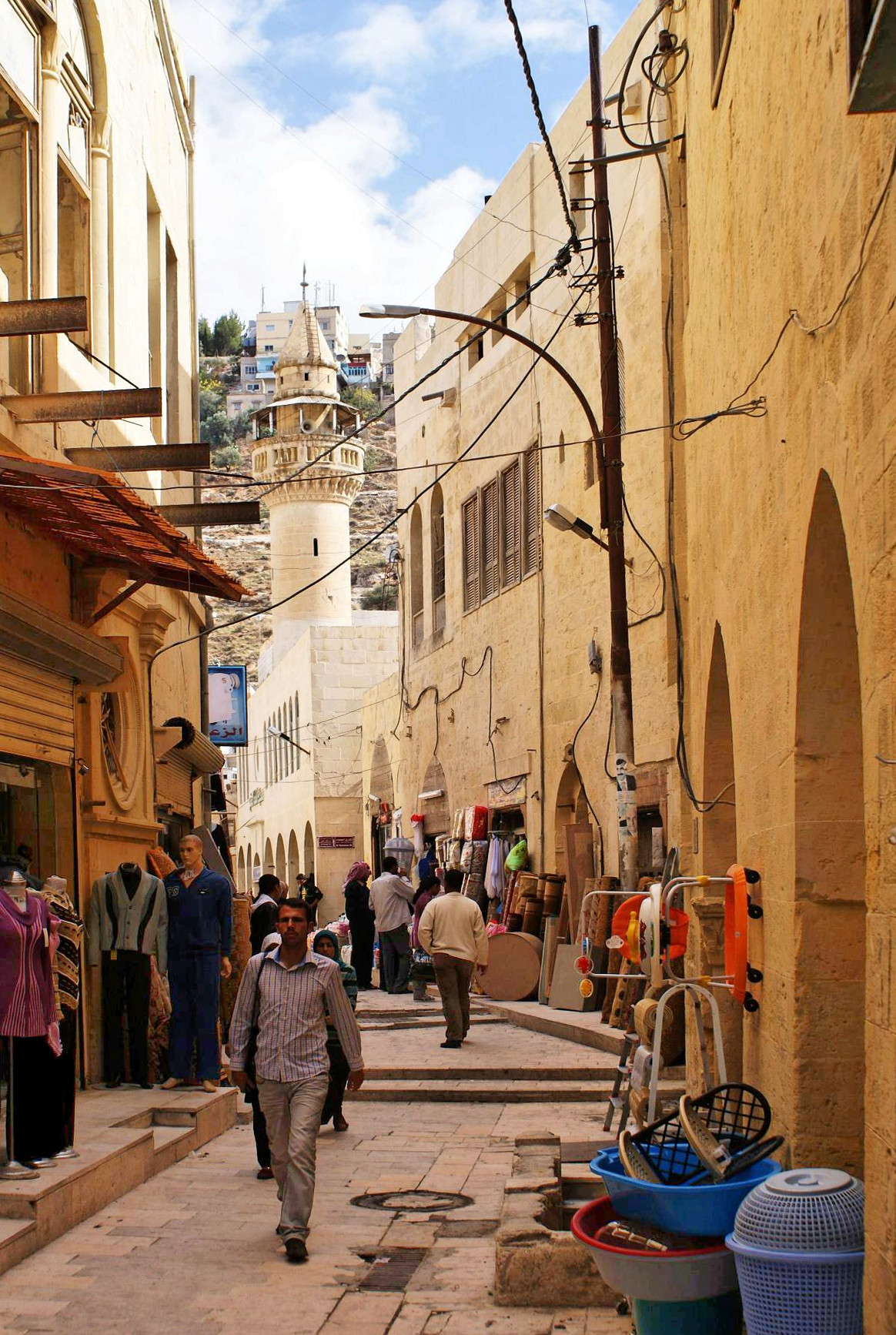 Hamam street, As-Salt, Jordan.